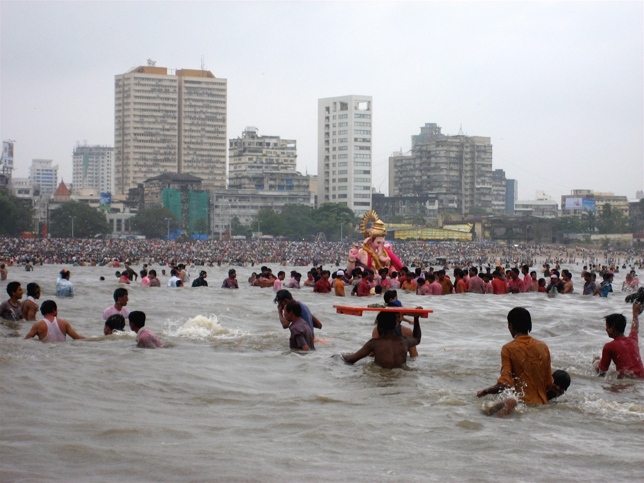 Ganesh Visarjan at Girgaum Chowpatty c.2007